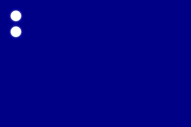 These are my own designs using MS Paint 2015 based upon Napisaola Alexandre Le Gras: Album des pavillons, guidons, flammes de toutes les puissances maritimes book published in 1864 on page 4. It is the command flag Rear Admiral of the Blue squadron flown at the top of the masthead in use from 1702 to 1864.